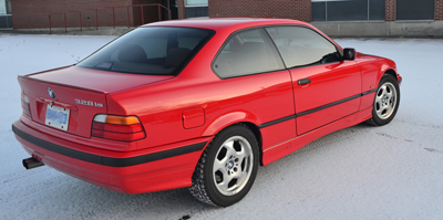 Final year of the e36. The 1999 328iS was the high point of that model run. This example is fully loaded with optional premium package. It retailed in 1999 for $53,000.